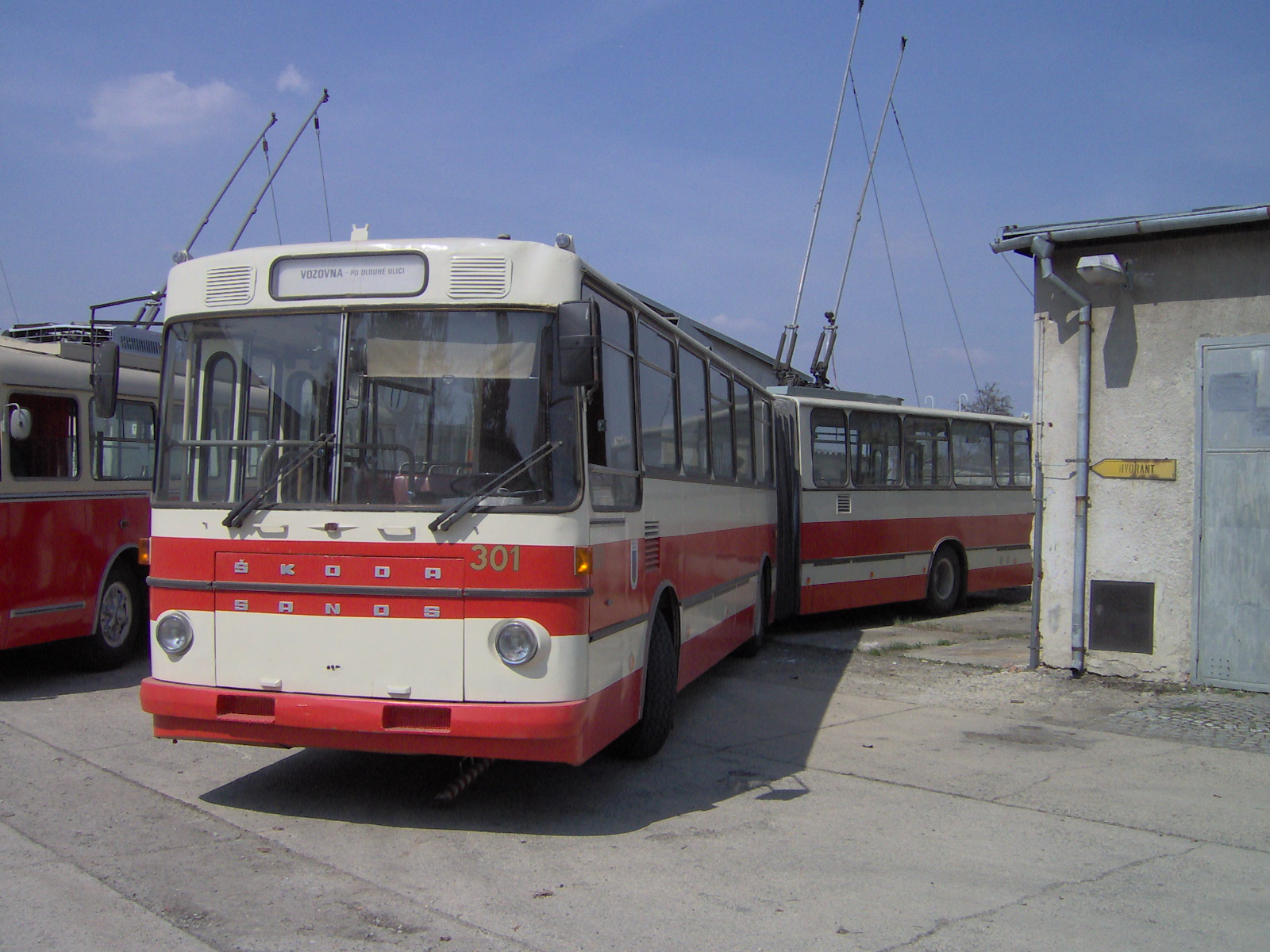 Škoda-Sanos S 200Tr trolleybus in Brno (the car come from Zlín, now possession of Technical museum Brno)